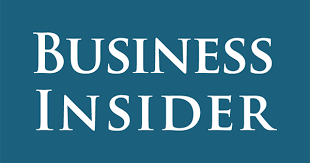 The logo of Business Insider